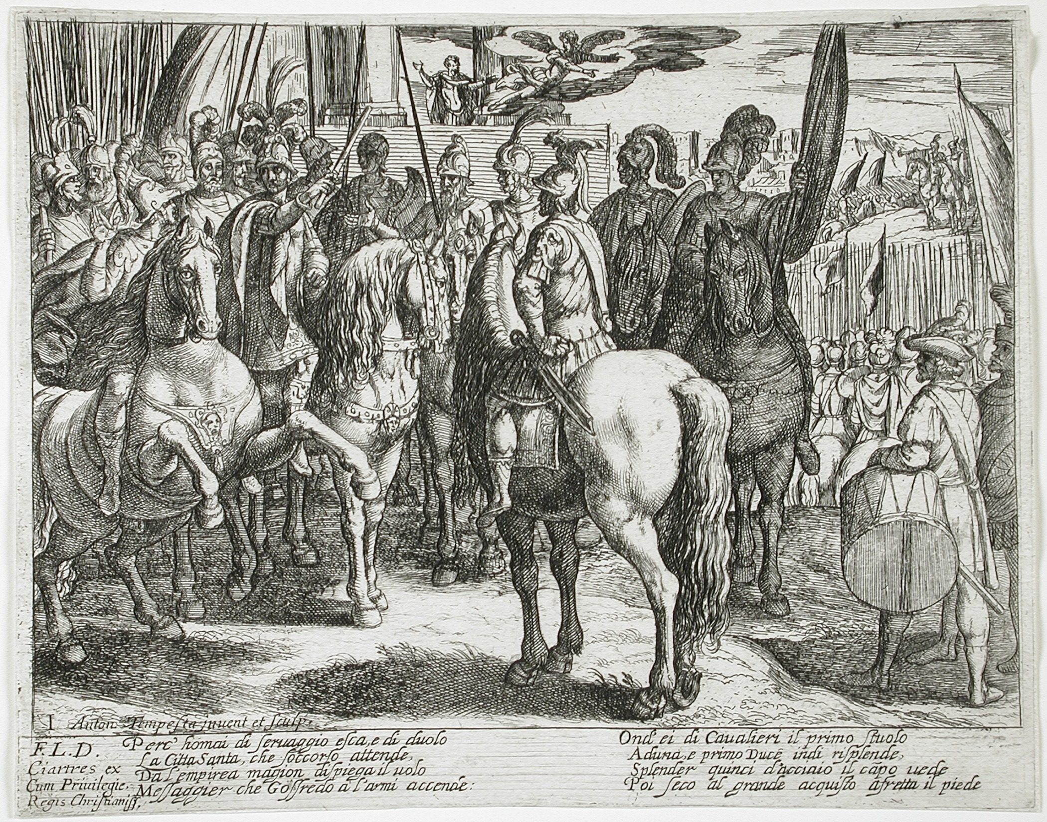 Italy, 16th century Series: Jerusalem Delivered II by Tasso Prints; etchings Etching Los Angeles County Fund (65.37.64) Prints and Drawings